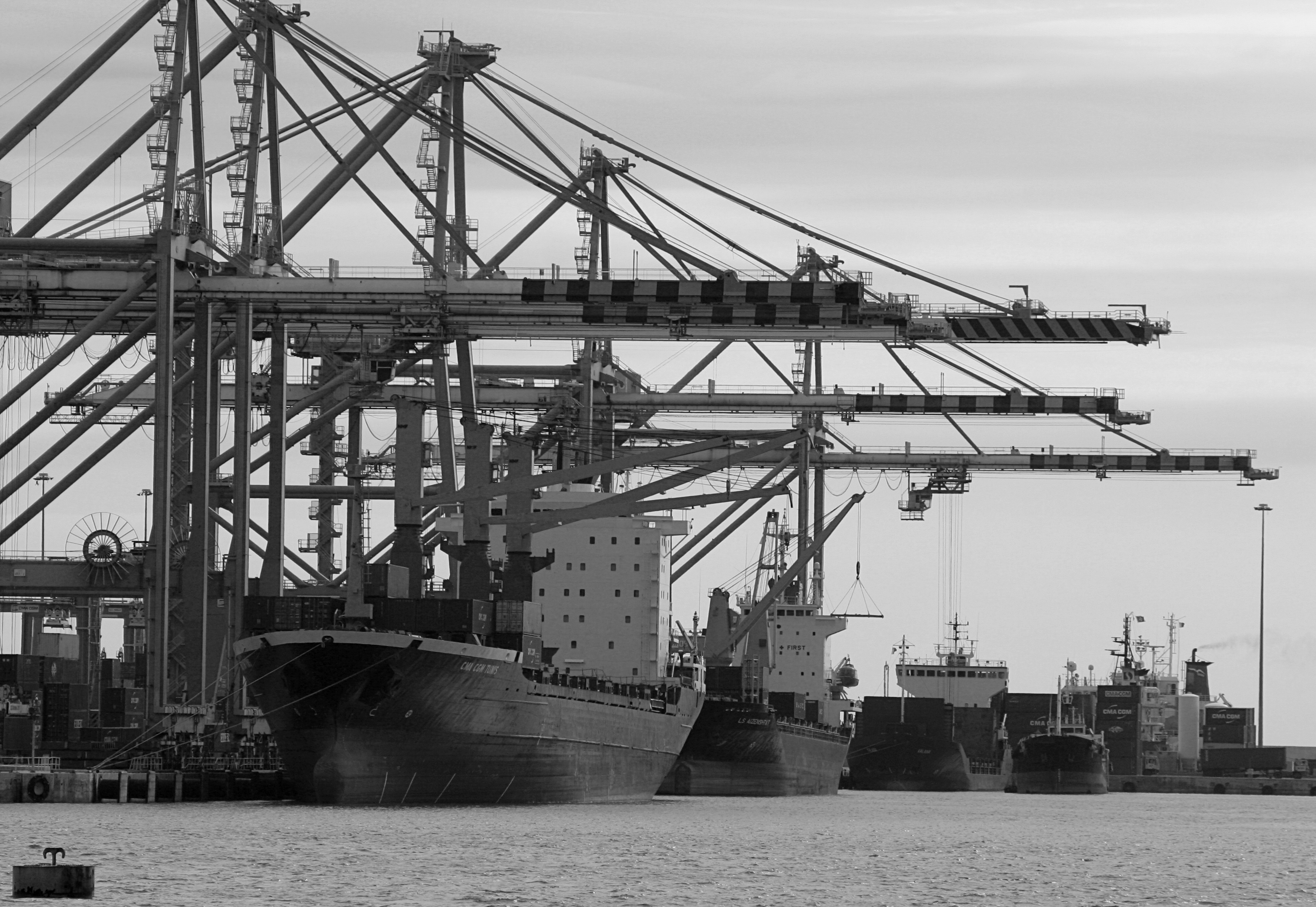 Freeport is a large container ship terminal on the south east coast of Malta. Given it's central location in the middle of the Mediterranean and deep waters Malta makes an ideal transportation hub for sea going cargo CMA CGM Tunis: IMO Number: 9064774 MMSI Number: 636091612 Callsign: A8QC9 Length: 167 m Beam: 25 m LS Aizenshtat: IMO Number: 9117753 MMSI Number: 375532000 Callsign: J8B3495 Length: 115 m Beam: 18 m